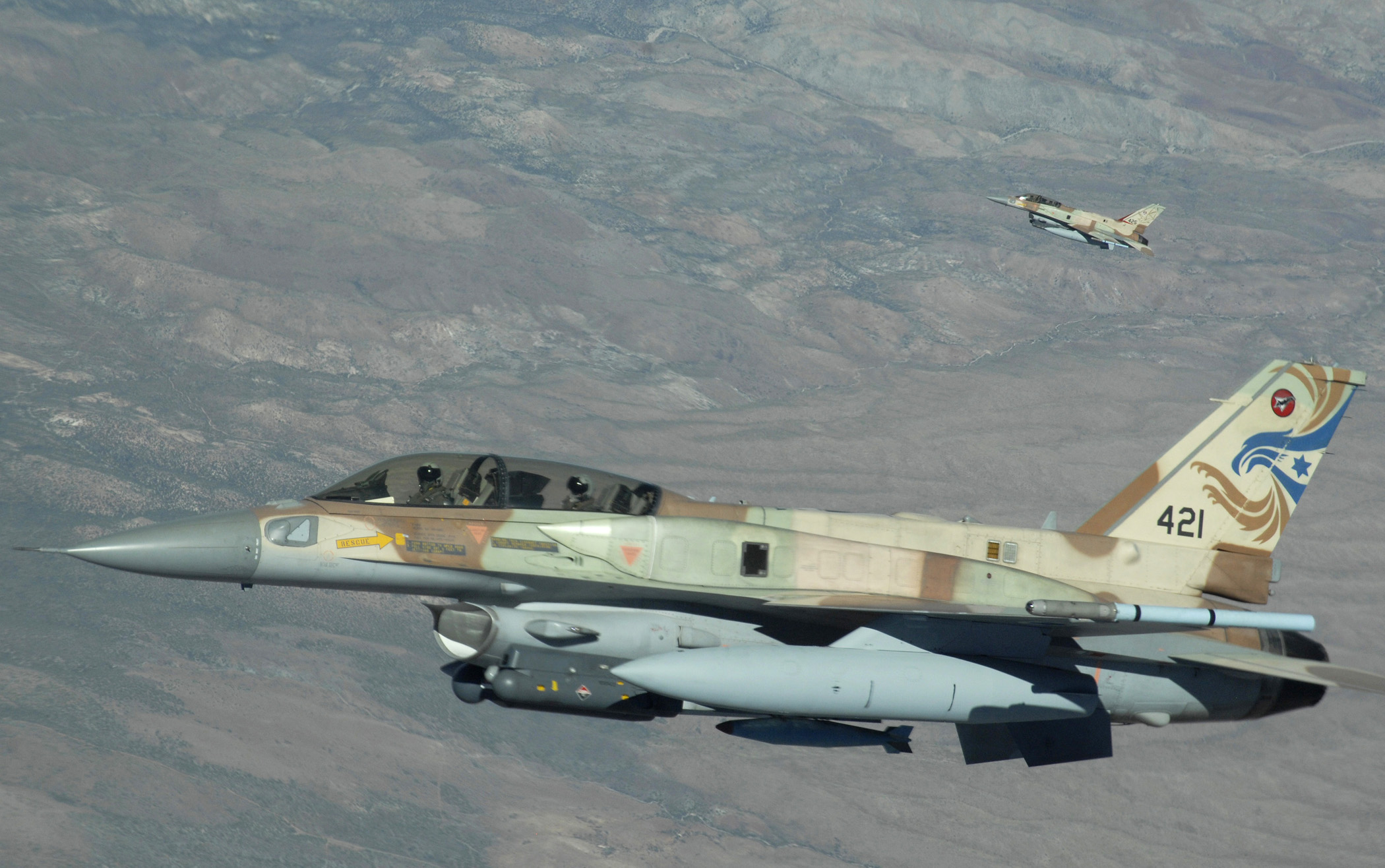 A two-ship of Israeli Air Force F-16s from Ramon Air Base, Israel, head out to the Nevada Test and Training Range, July 17 during Red Flag Exercise 09-4.